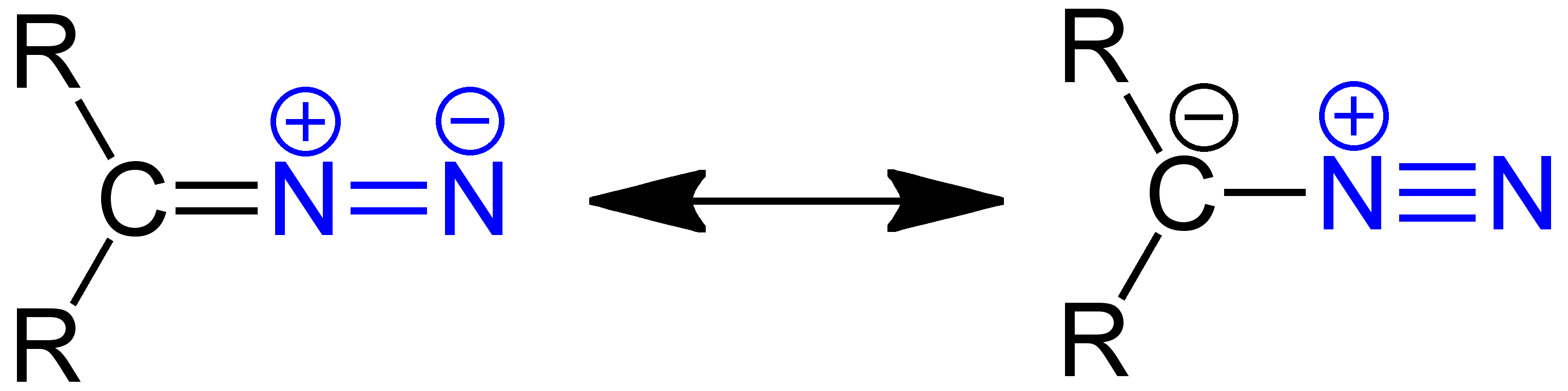 Diazo_Group_Mesomeric_Structures